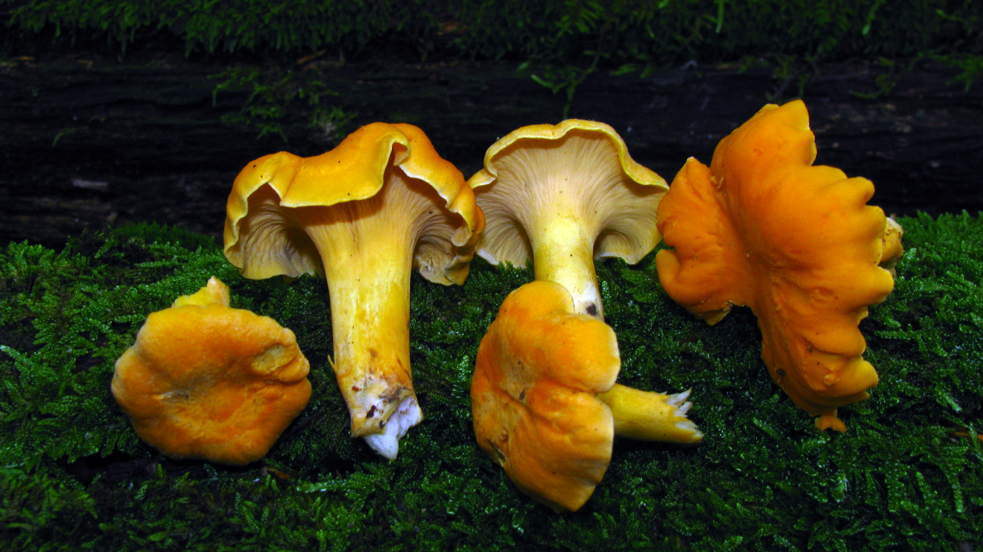 The mushroom Cantharellus lateritius (Berk.) Singer. Photographed in Strouds Run State Park, Athens, Ohio, USA.